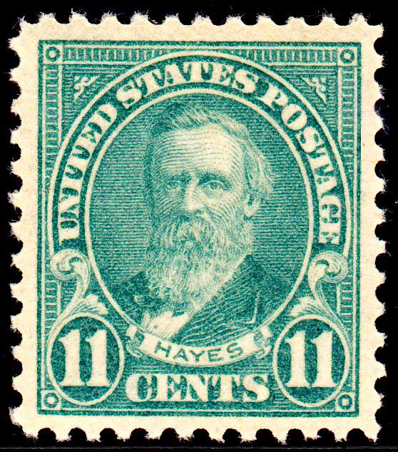 US Postage stamp: Hayes, Issue of 1922, 11c